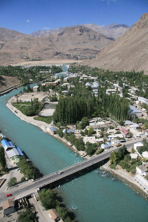 City Khorog, Panorama of the city